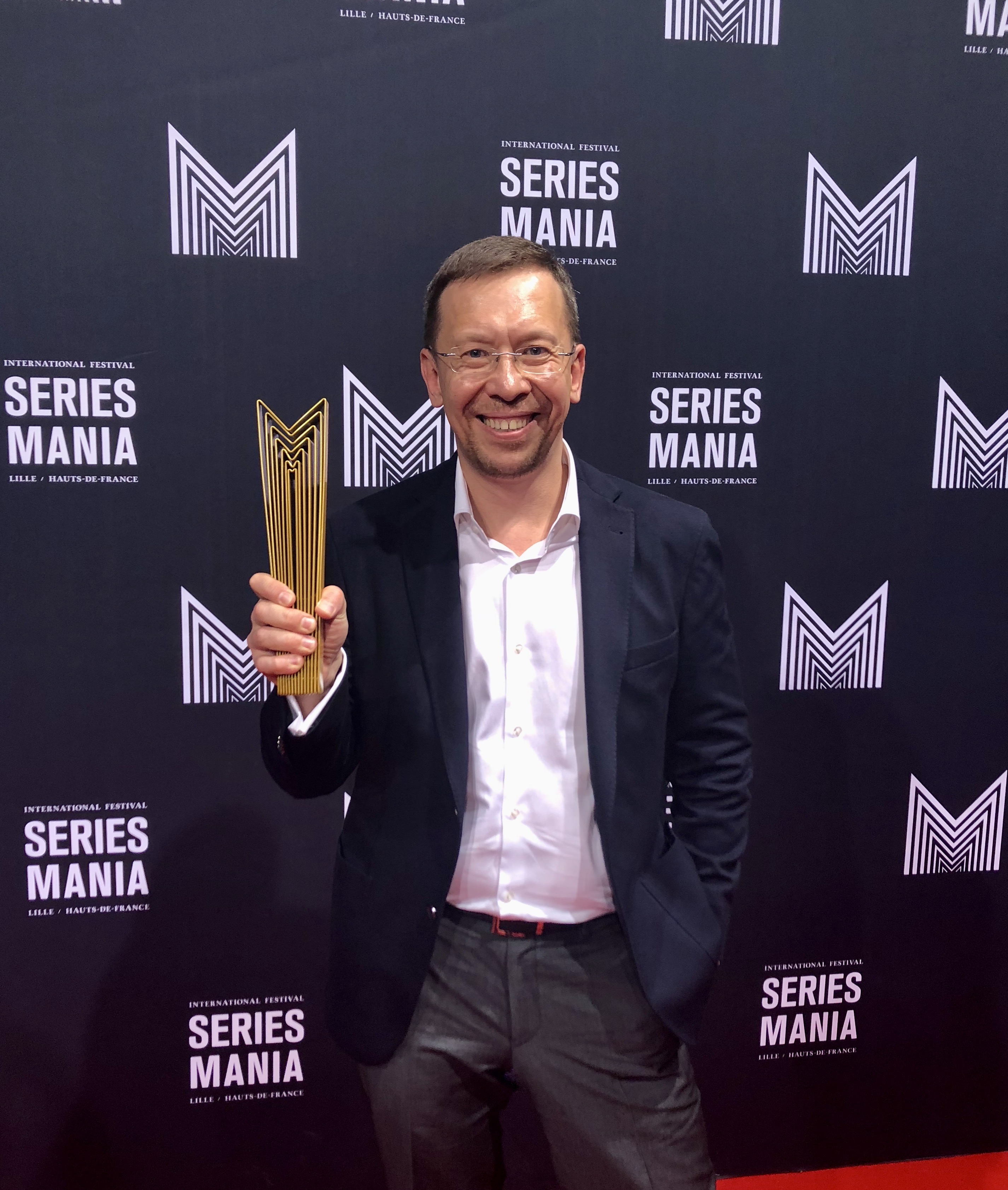 Producer Albert Ryabyshev on Series Mania 2018